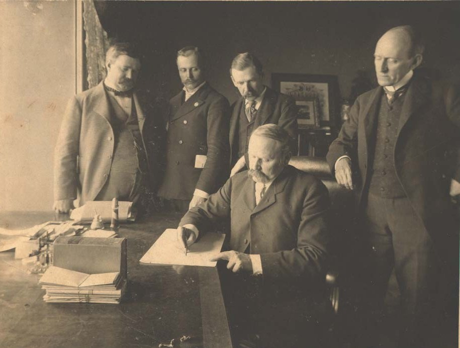 Tennessee Governor Benton McMillin signing the Child Labor Bill of 1901. Standing from left are John P. Murphy of Knoxville, William Hall of Knoxville, Charles P. Fahey of Nashville, and W.B. Eldridge of Memphis.